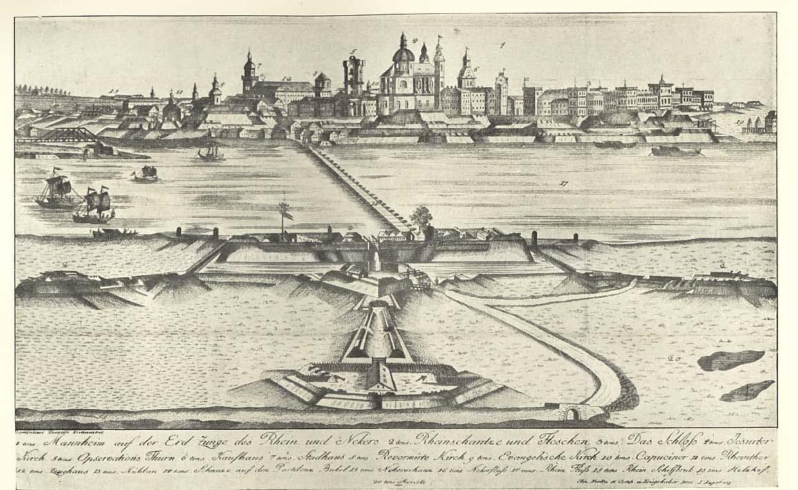 Mannheim, view from the Rheinschanze (today's Ludwigshafen am Rhein) around 1750.